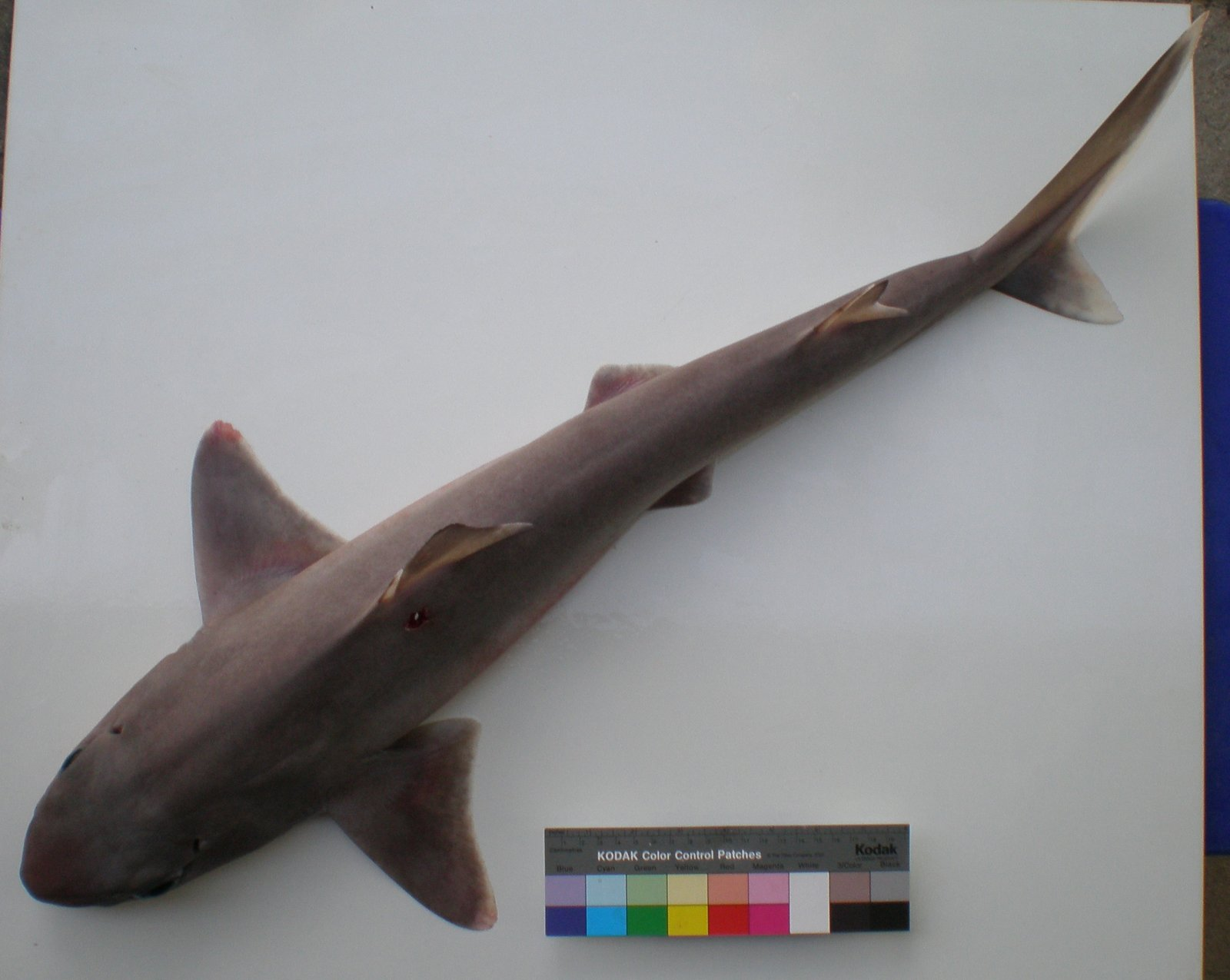 Squalus bucephalus. Body, dorsal view. Locality: Off Récif Toombo, off Nouméa, New Caledonia. Date 2008-07-23.Specimen identified by Bernard Séret (IRD-MNHN). This photograph is also in FishBase.